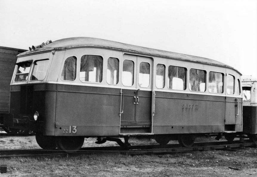 Railcar De Dion-Bouton ZZ 13 of the line Le Blanc - Argent ex TL (Tw du Loiret)